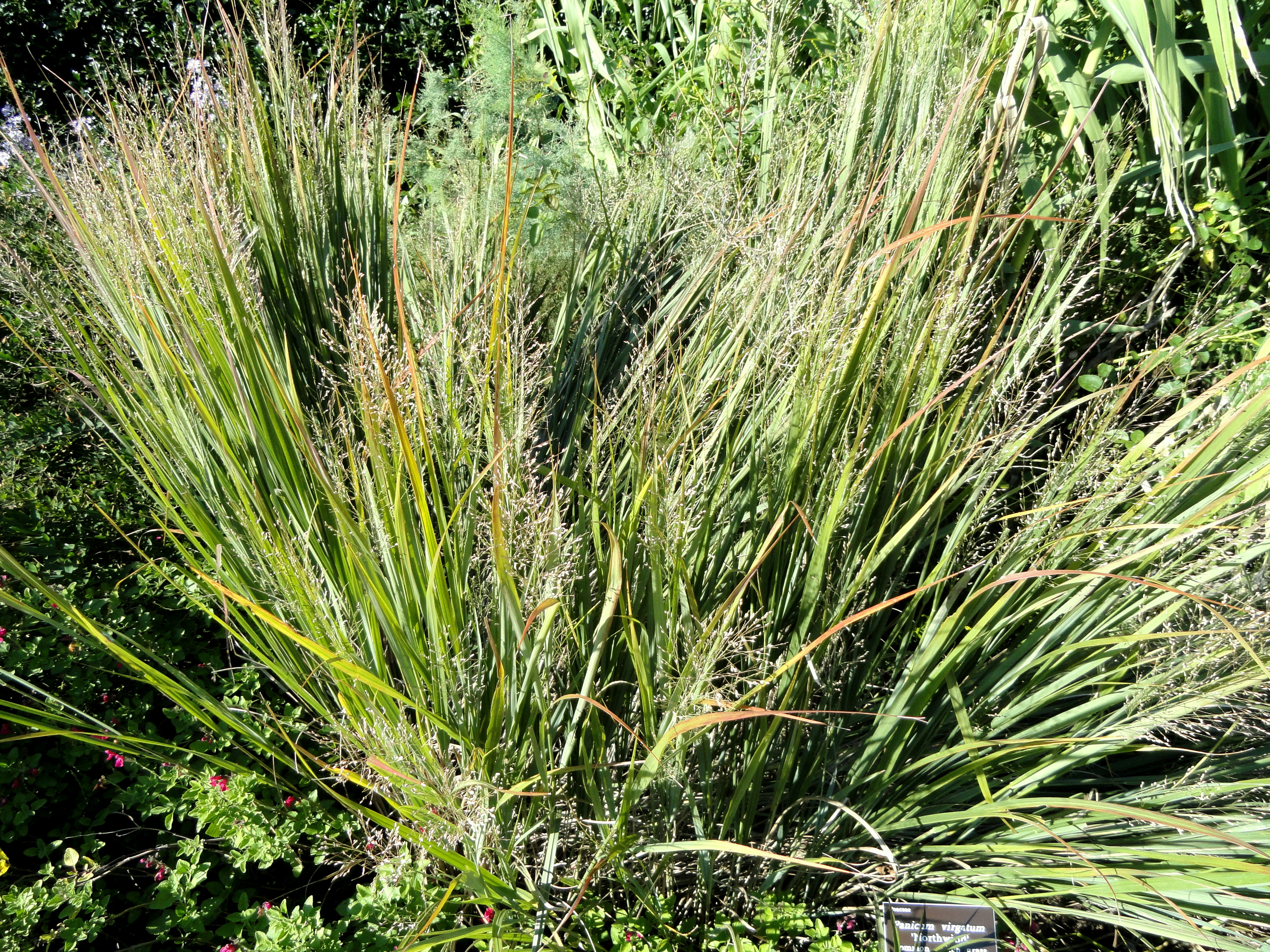 Panicum virgatum specimen in the J. C. Raulston Arboretum (North Carolina State University), 4415 Beryl Road, Raleigh, North Carolina, USA.